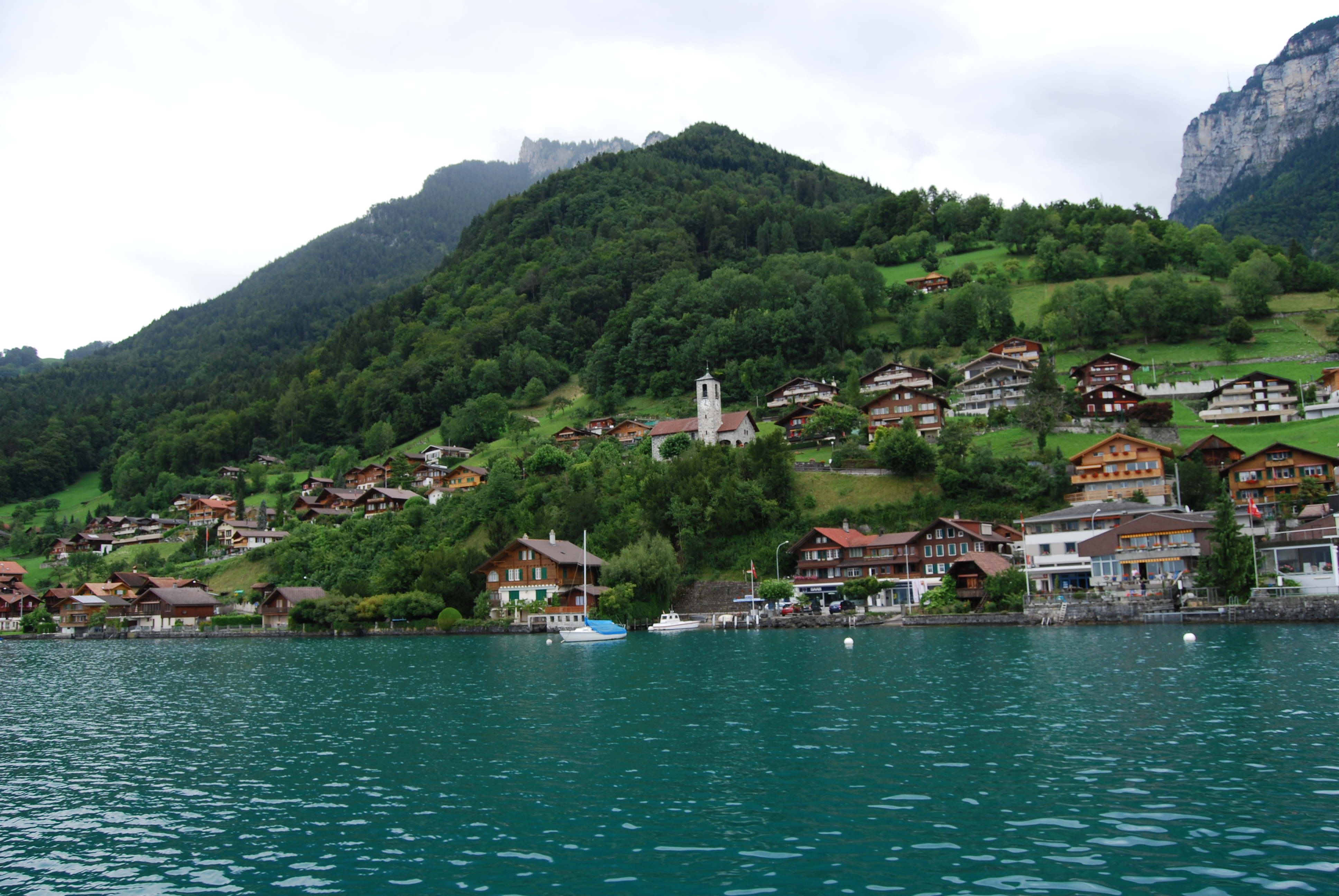 Merligen, municipality of Sigriswil, canton of Bern, Switzerland